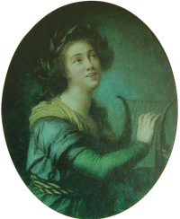 Portrait of Luísa Todi (1753-1833), Portuguese singer (mezzosoprano)